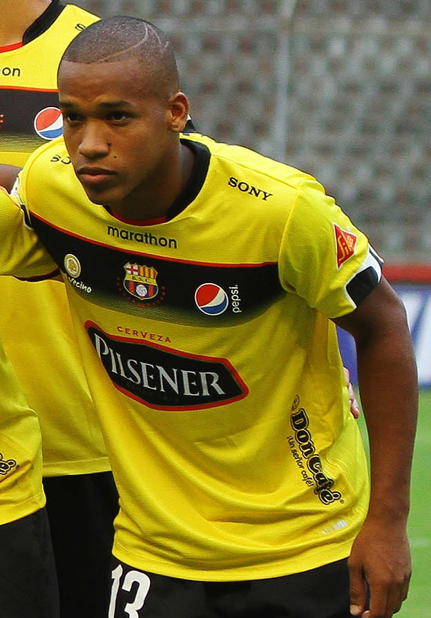 Ely Esterilla. Guayaquil, Martes 3 de marzo del 2015 (ANDES).-Barcelona enfrenta a Libertad de Paraguay en su primer partido por Copa LibertadoresFoto:César Muñoz/ANDES